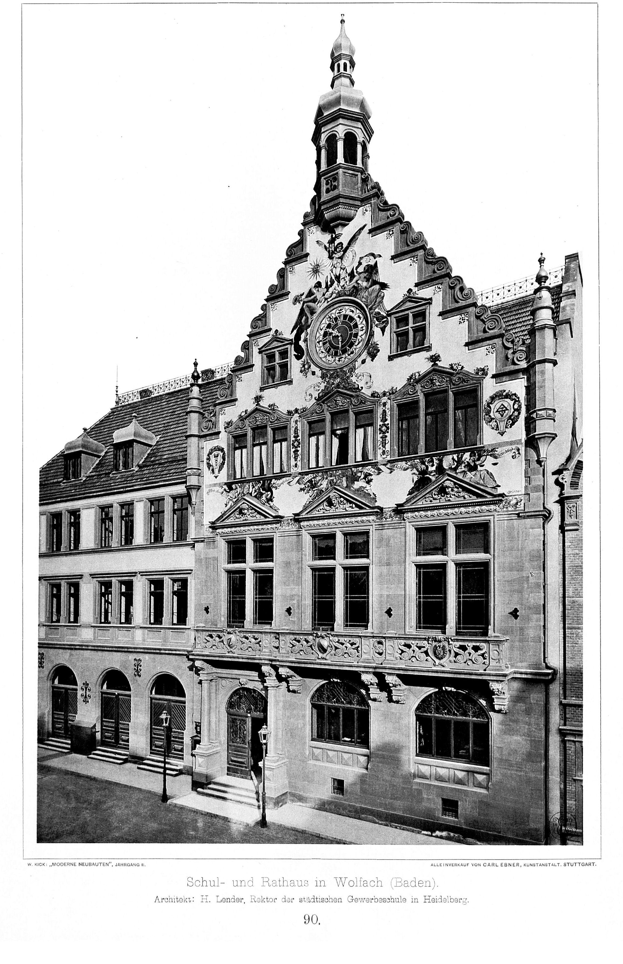 Schul-_und_Rathaus_in_Wolfach,_Baden,_Architekt_H._Lender,_Rektor_der_städtischen_Gewerbeschule_Heidelberg,_Tafel_90,_Kick_Jahrgang_II.jpg